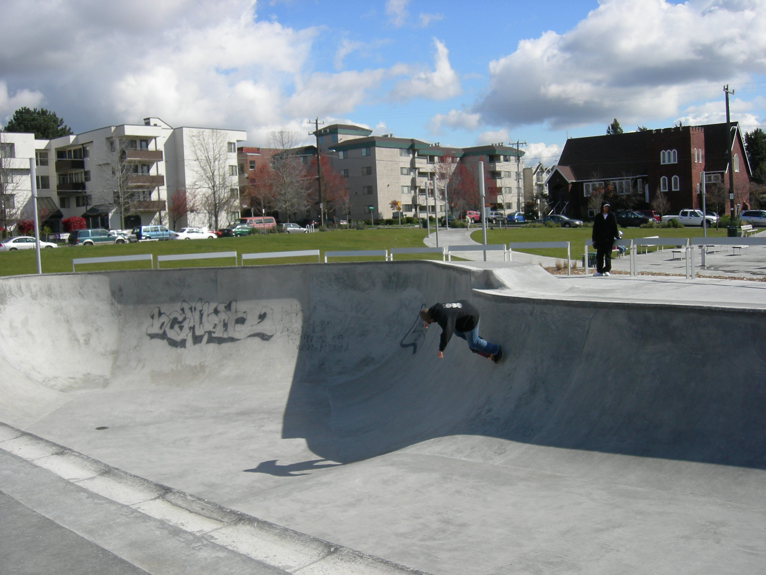 Skateboarder, Ballard Commons, Seattle, Washington.